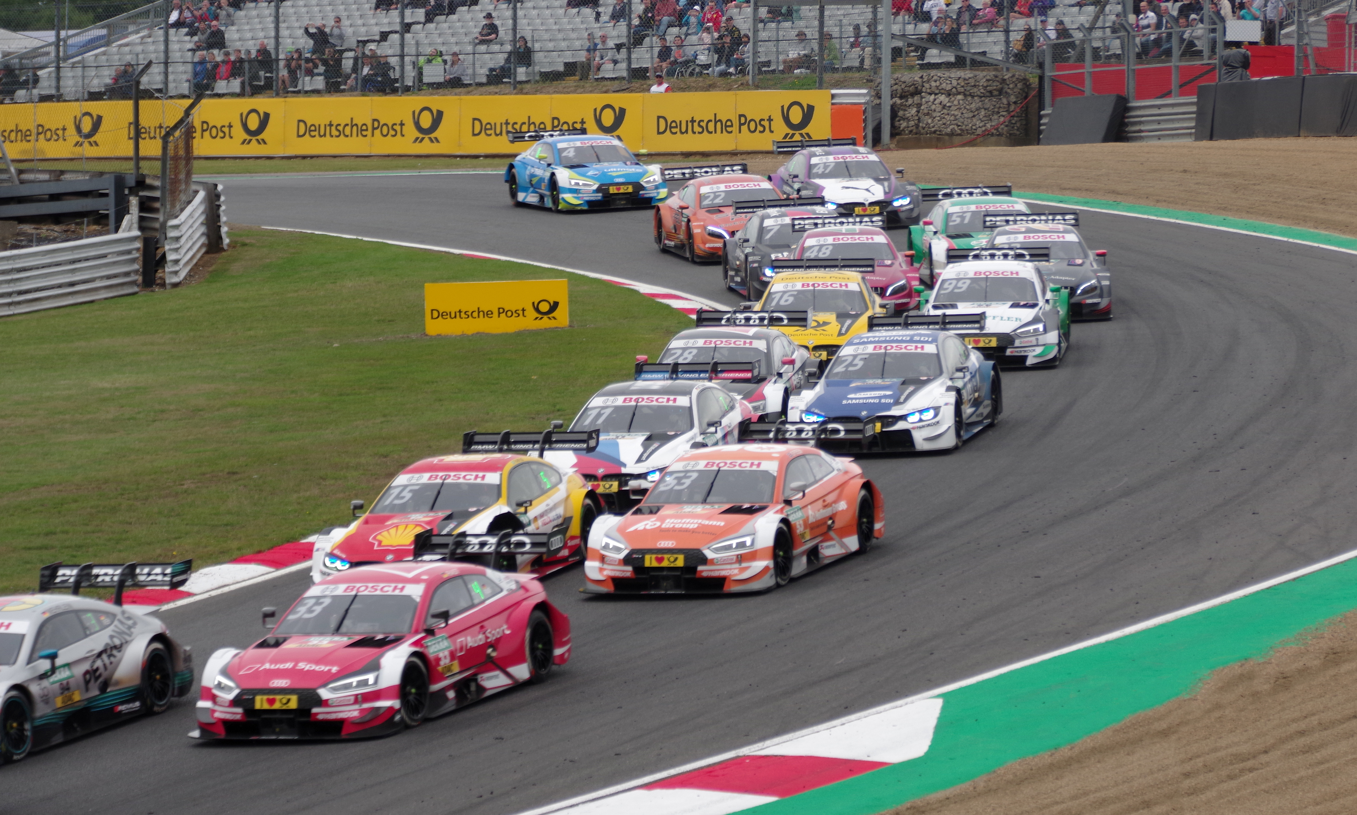 2018 Deutsche Tourenwagen Masters, Brands Hatch.